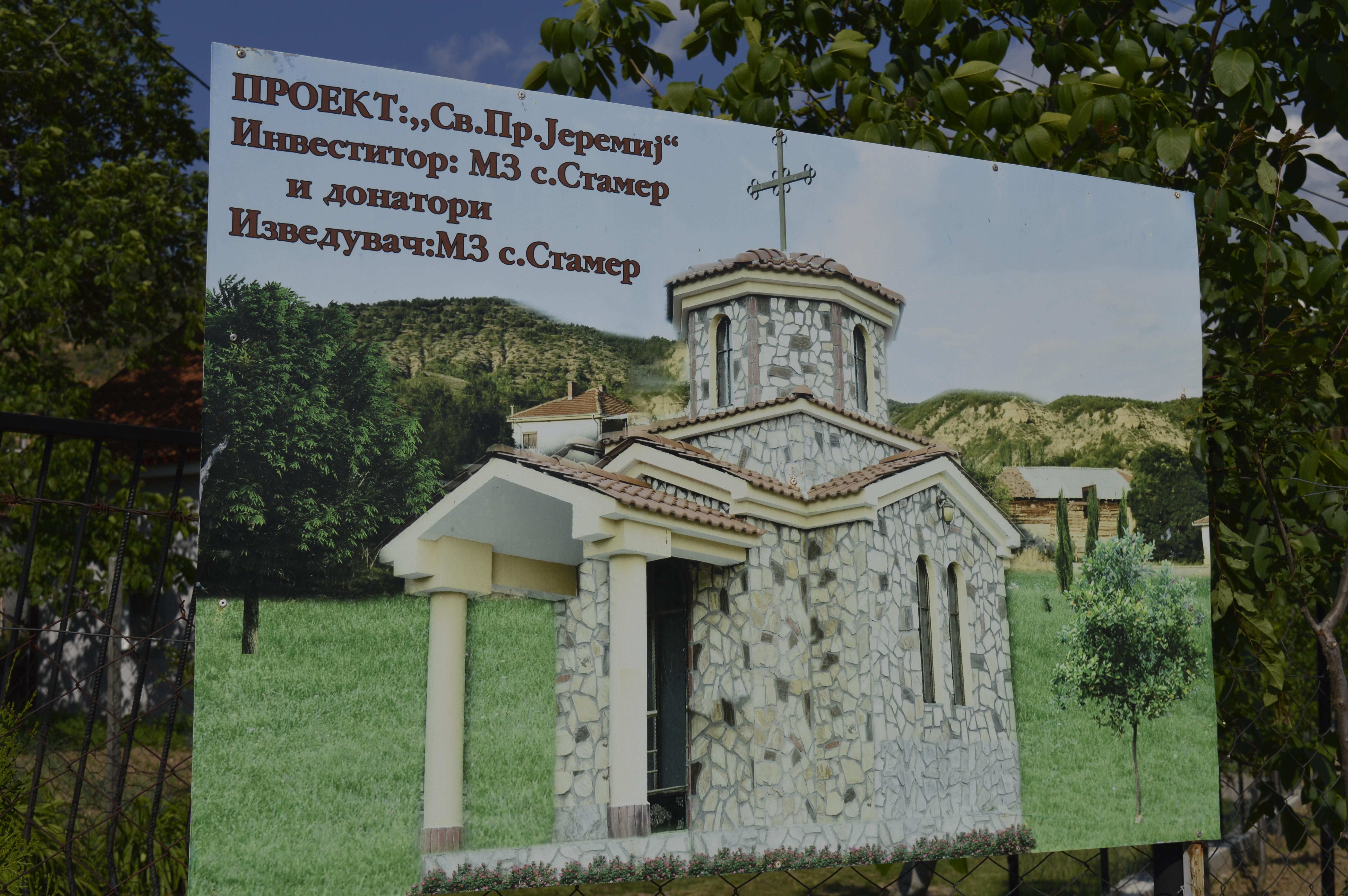 Informative table for the Jeremiah the Prophet Church in the village Stamer